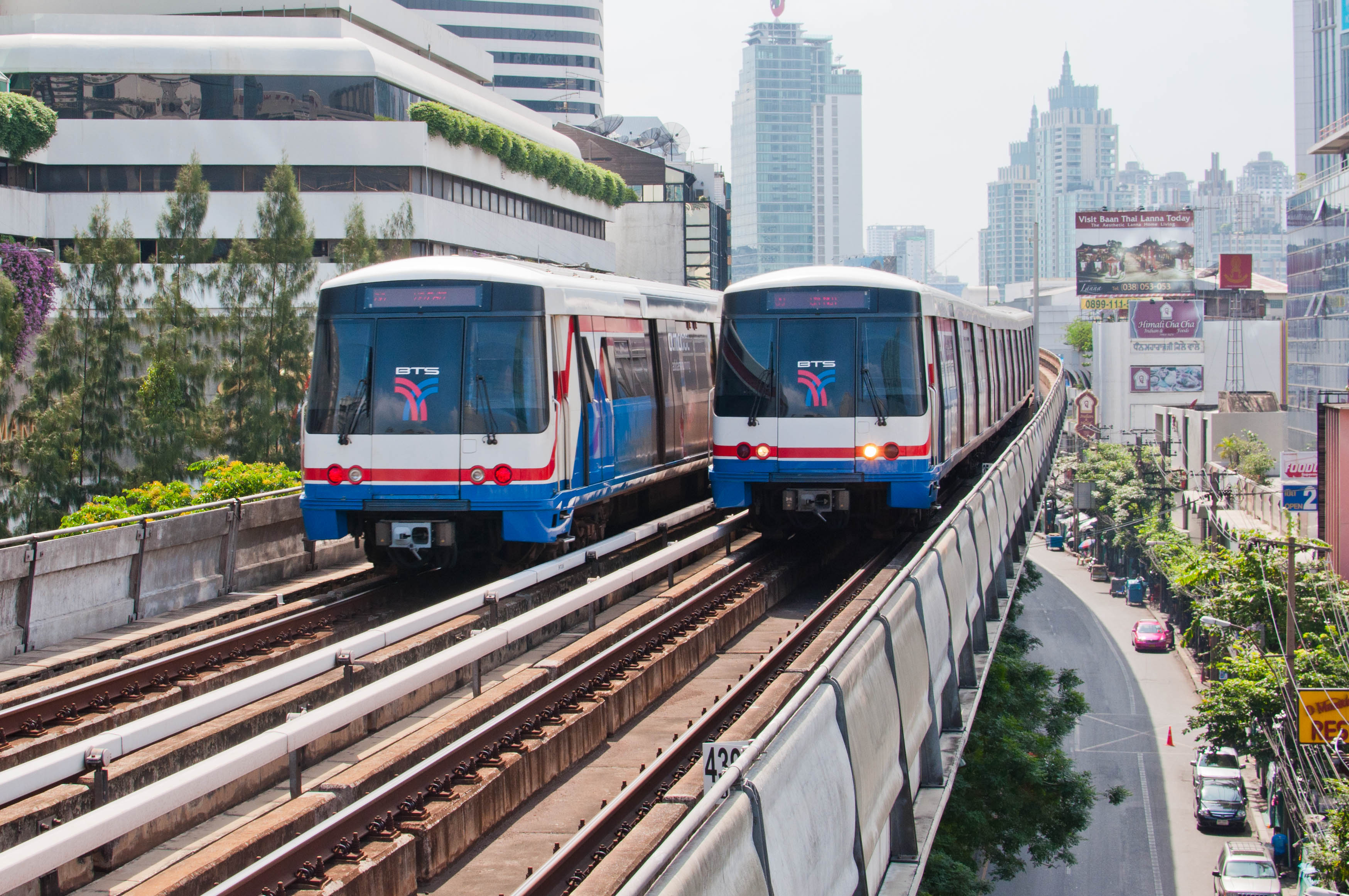 Bangkok Skytrain 2011.